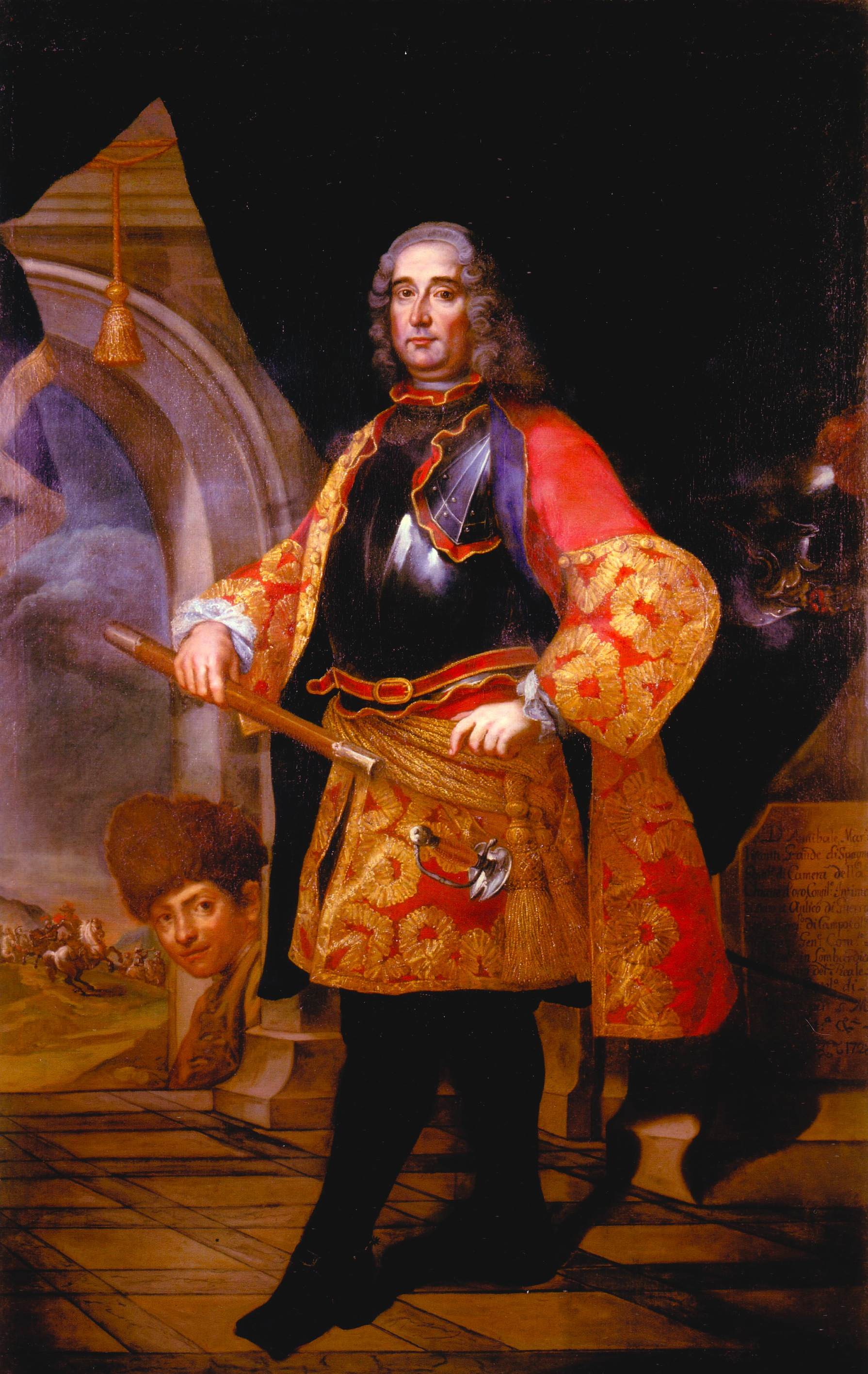 photo of the painting made by Fra' Galgario